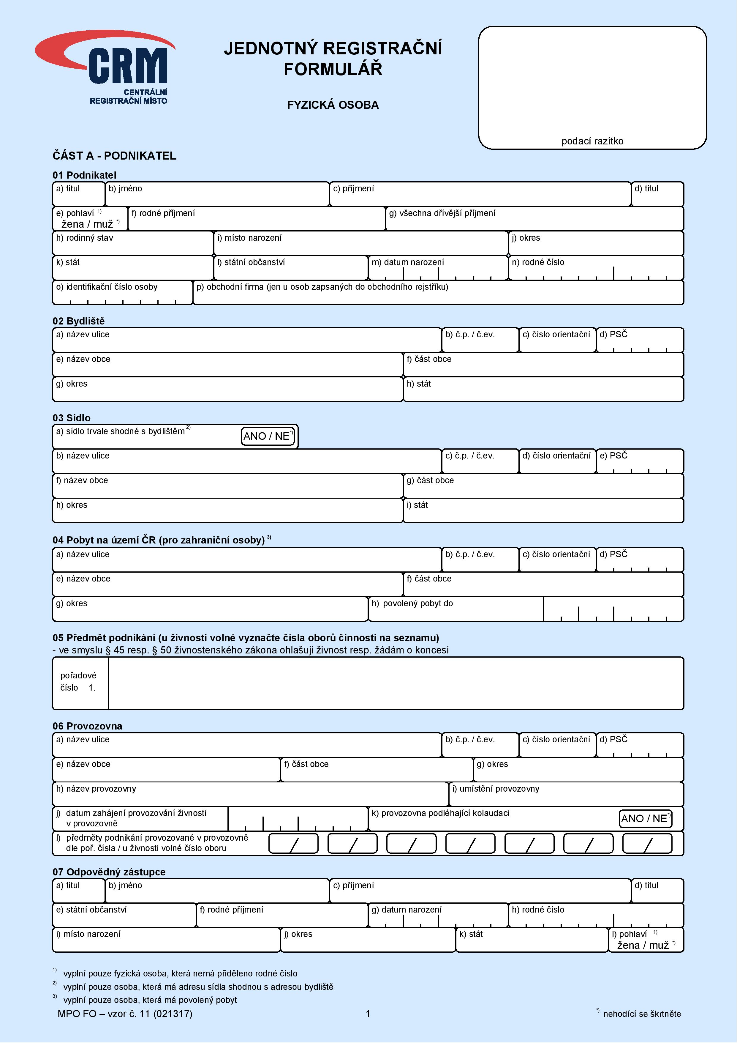 "Jednotný registrační formulář" (Unified registration form) - natural person, page 1 - intended for unified submission to certain authorities of the Czech Republic.